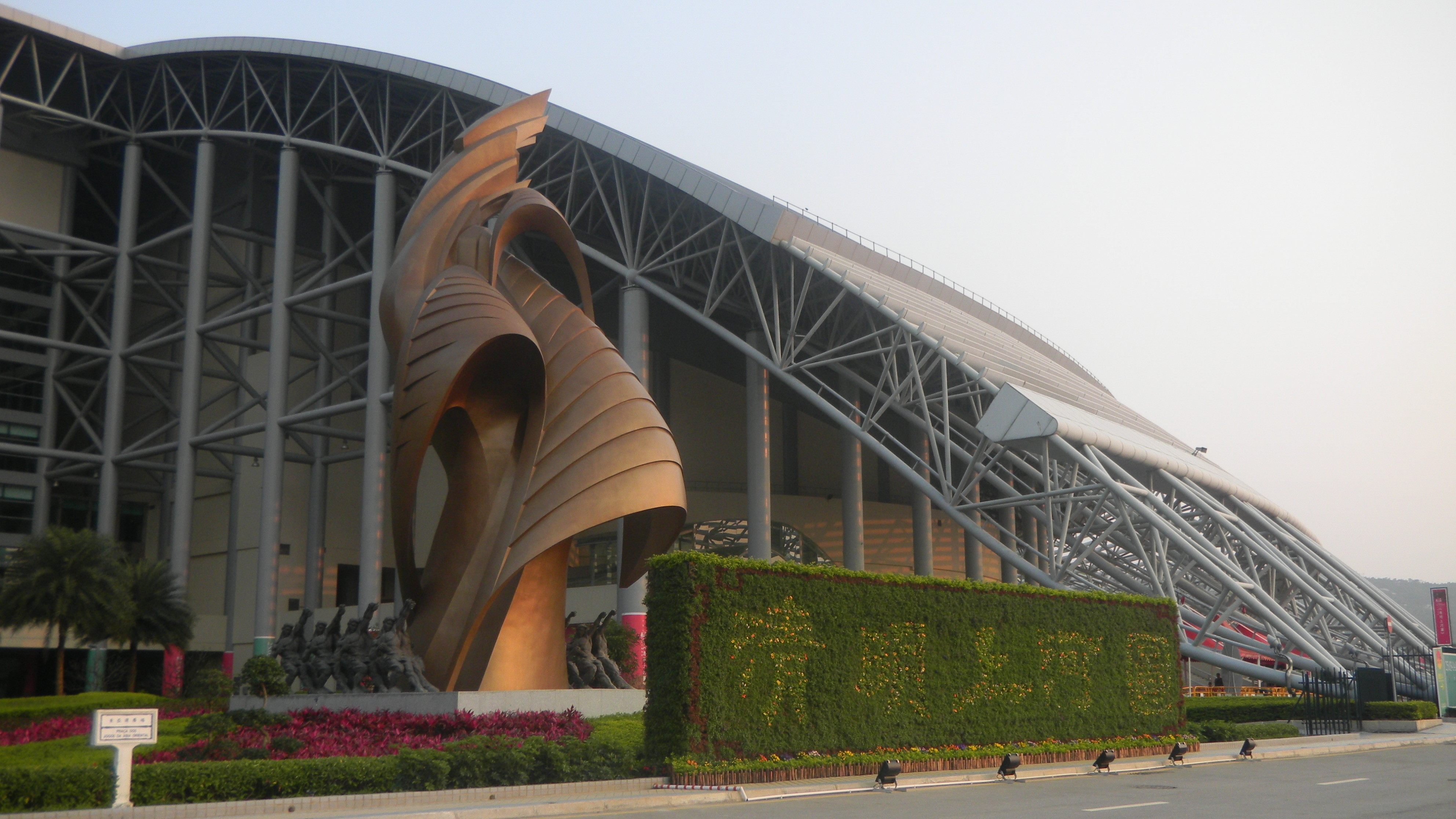 Animated Version of the Riverside Scene at Qingming Festival in Macau East Asian Games Dome